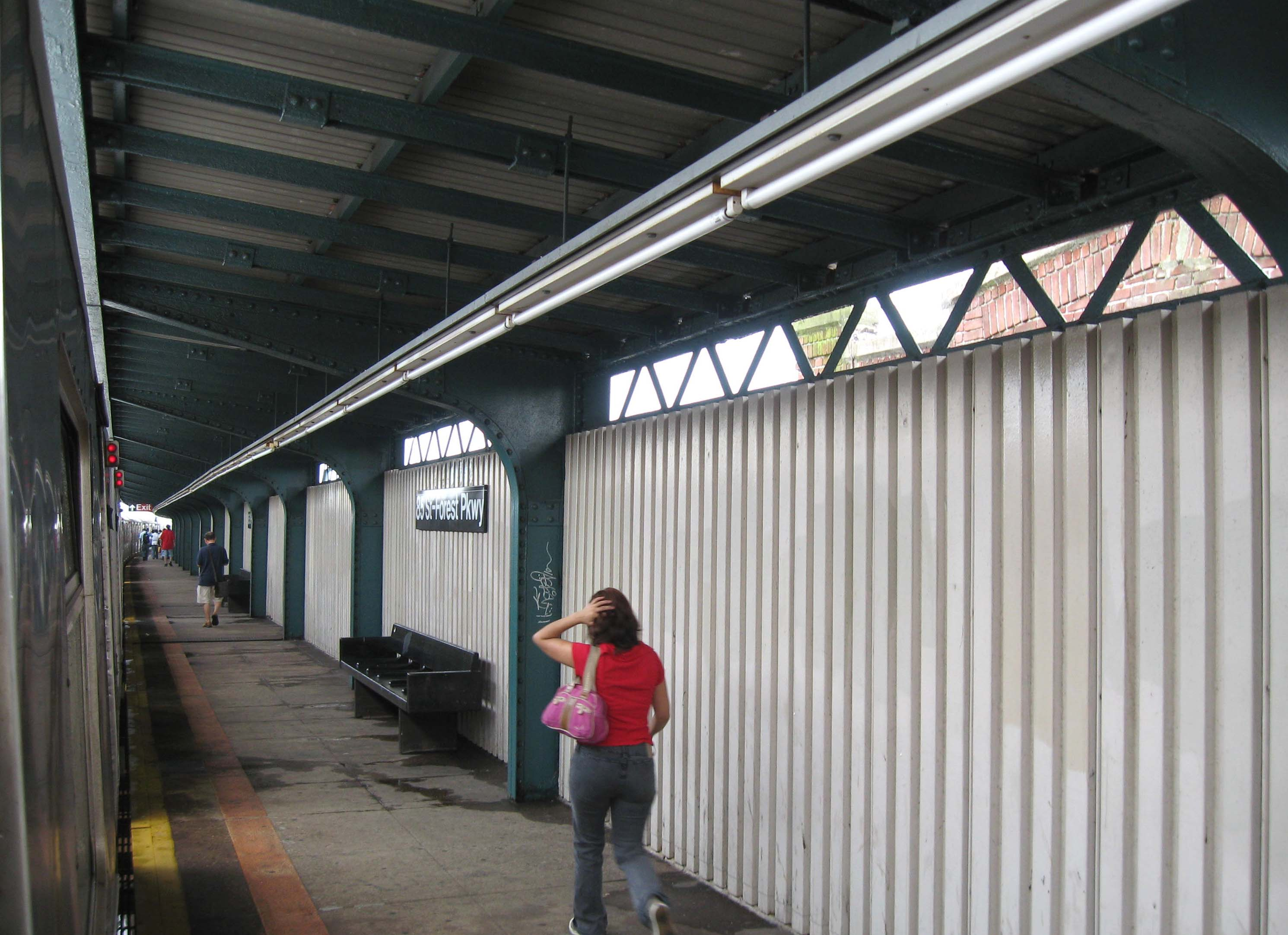 Looking east on northbound platform of en:85th Street–Forest Parkway (BMT Jamaica Line) on a rainy midday